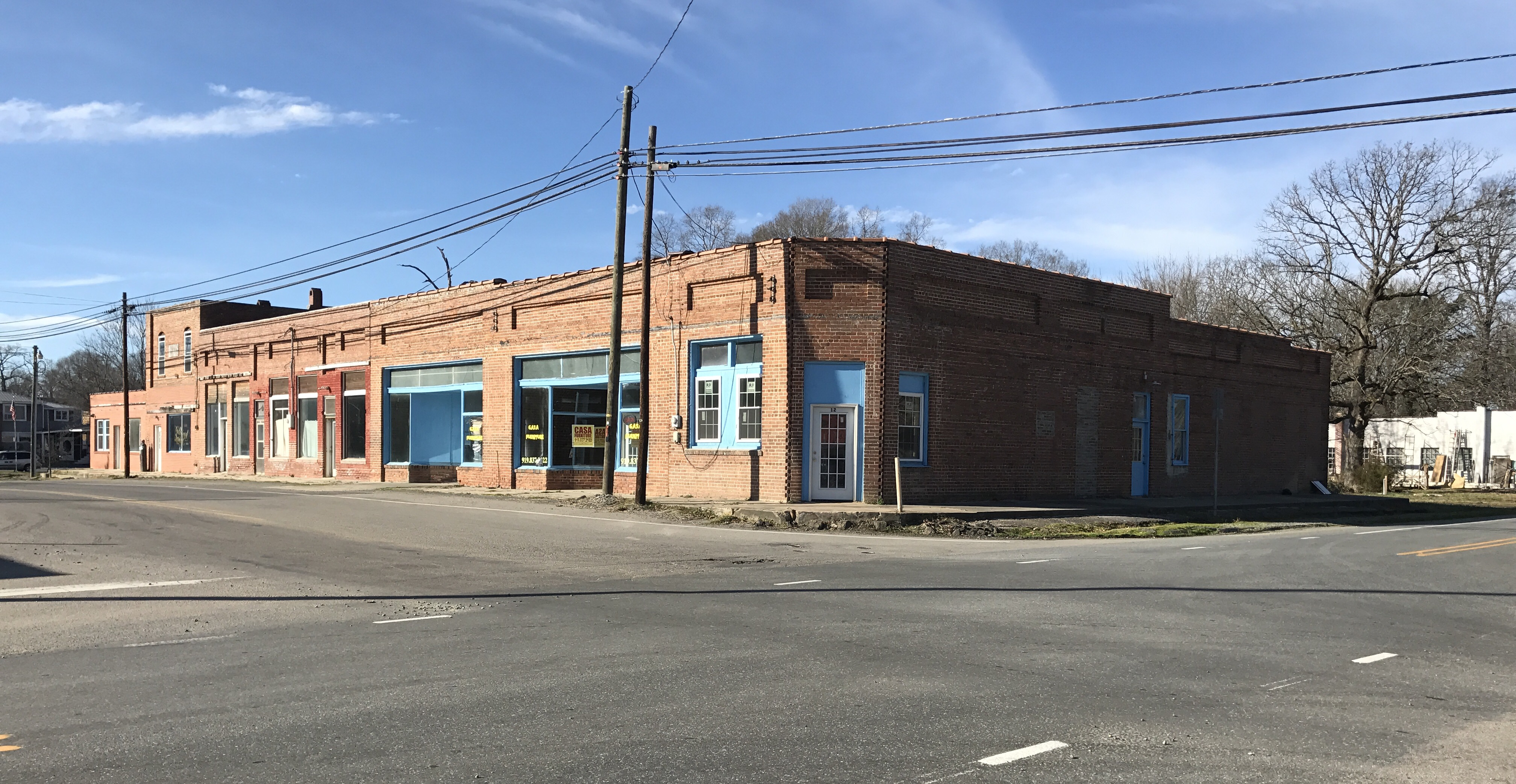 Cluster of commercial buildings in Bonlee